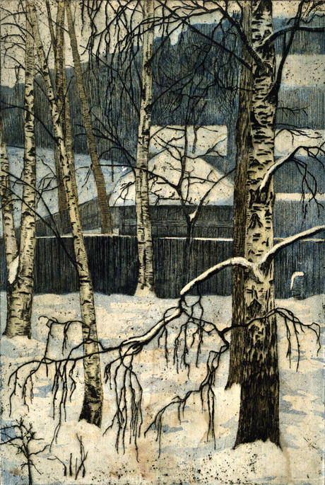 «Winter»